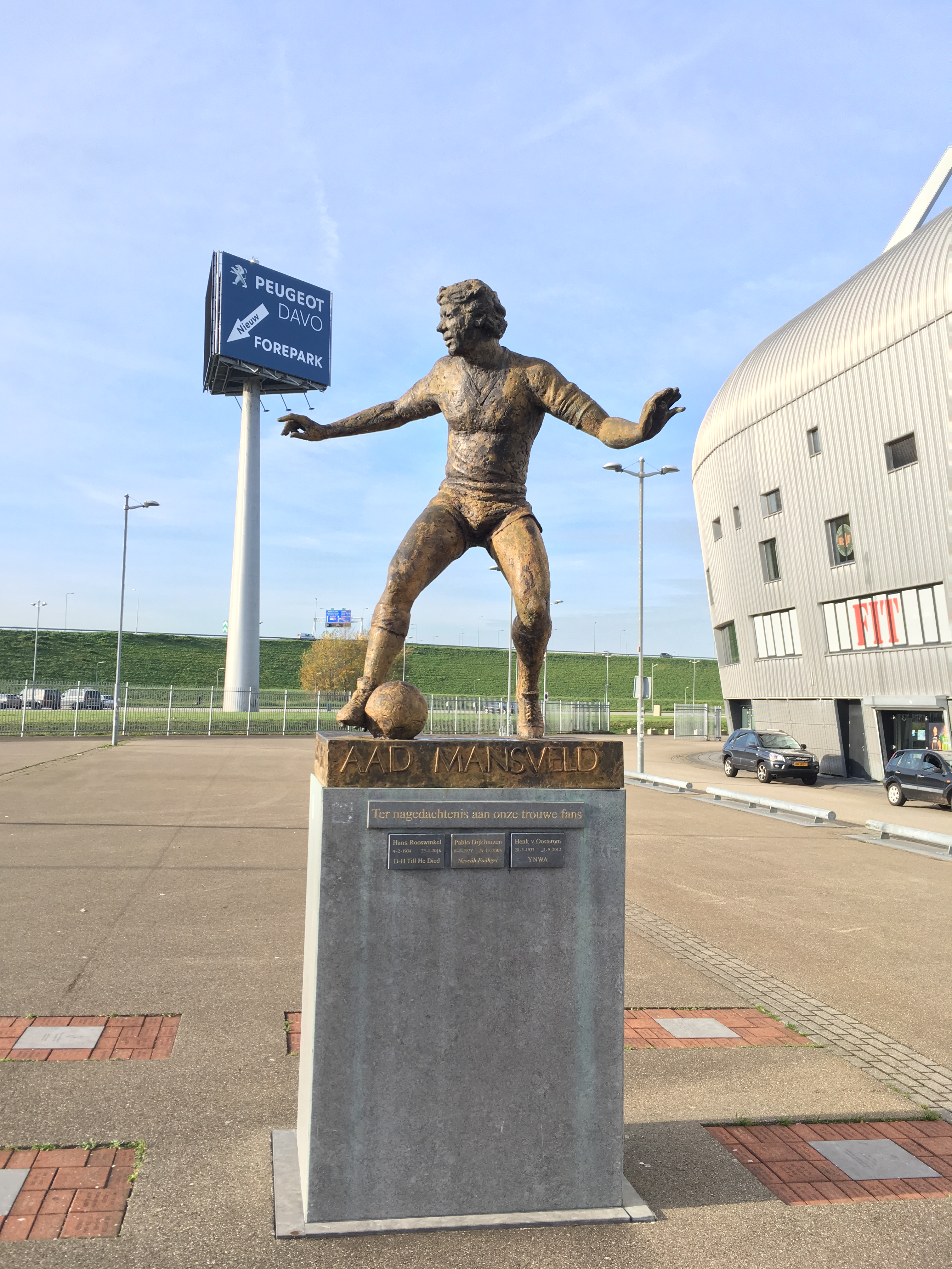 Multi-use stadium in The Hague, Netherlands, designed by Zwarts & Jansma Architects, completed in 2007. Home to soccer club ADO Den Haag. The Aad Mansveld memorial statue